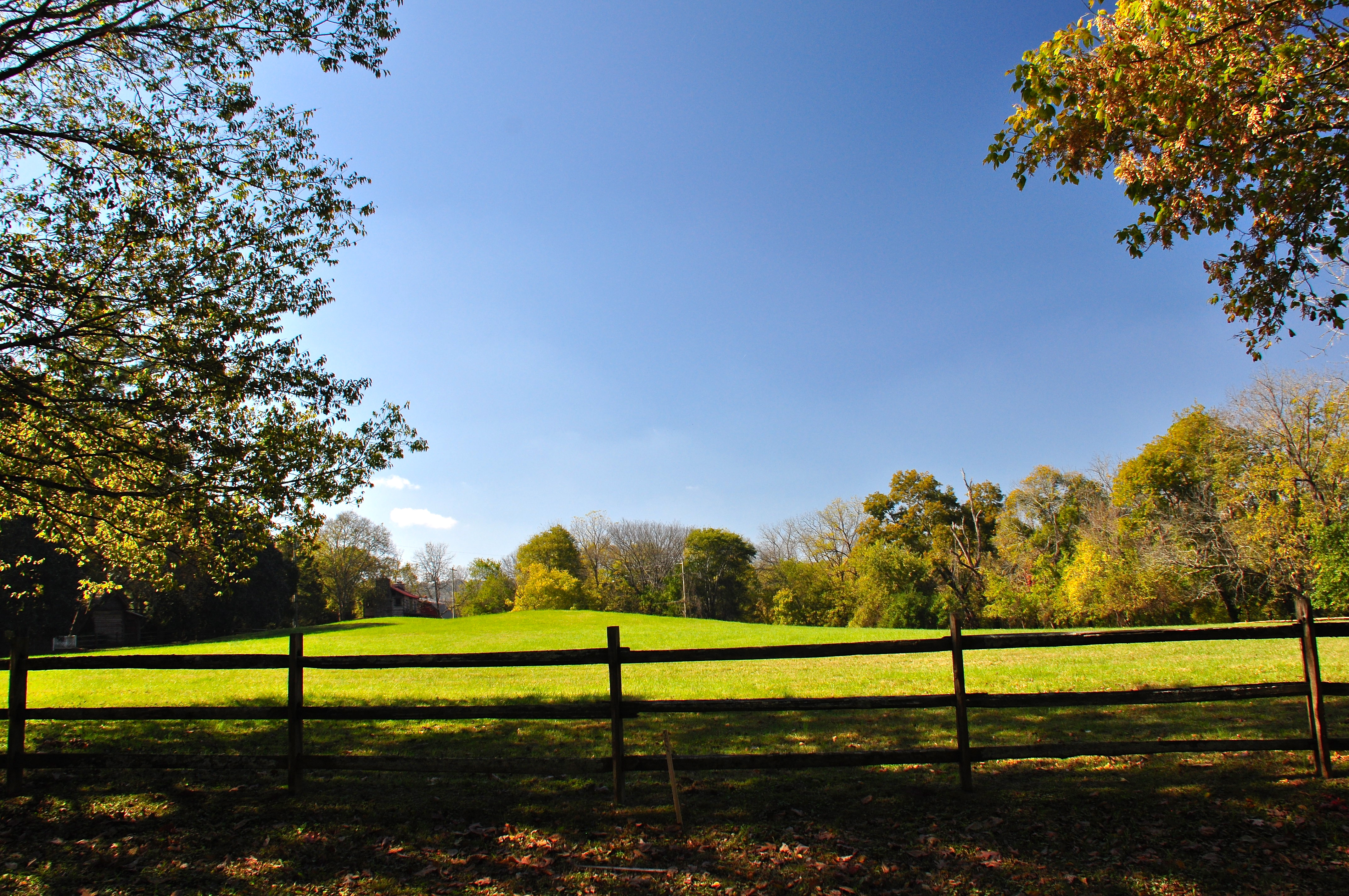 Old Town Archeological Site (40WM2), Western side of the Big Harpeth River, 6 miles (9.7 km) northwest of Franklin.